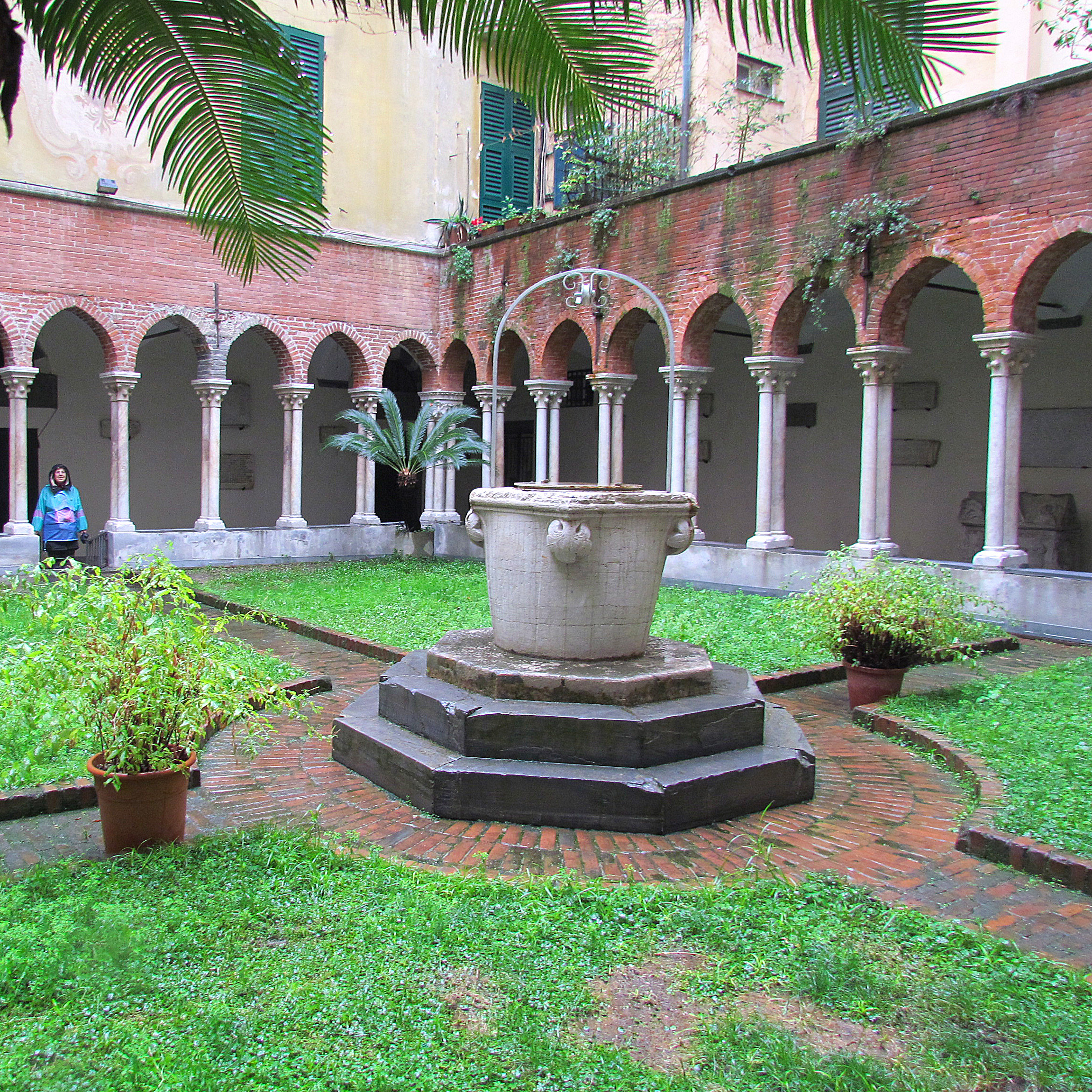 Cloister S. Matteo XIII-XIV cent. Genoa